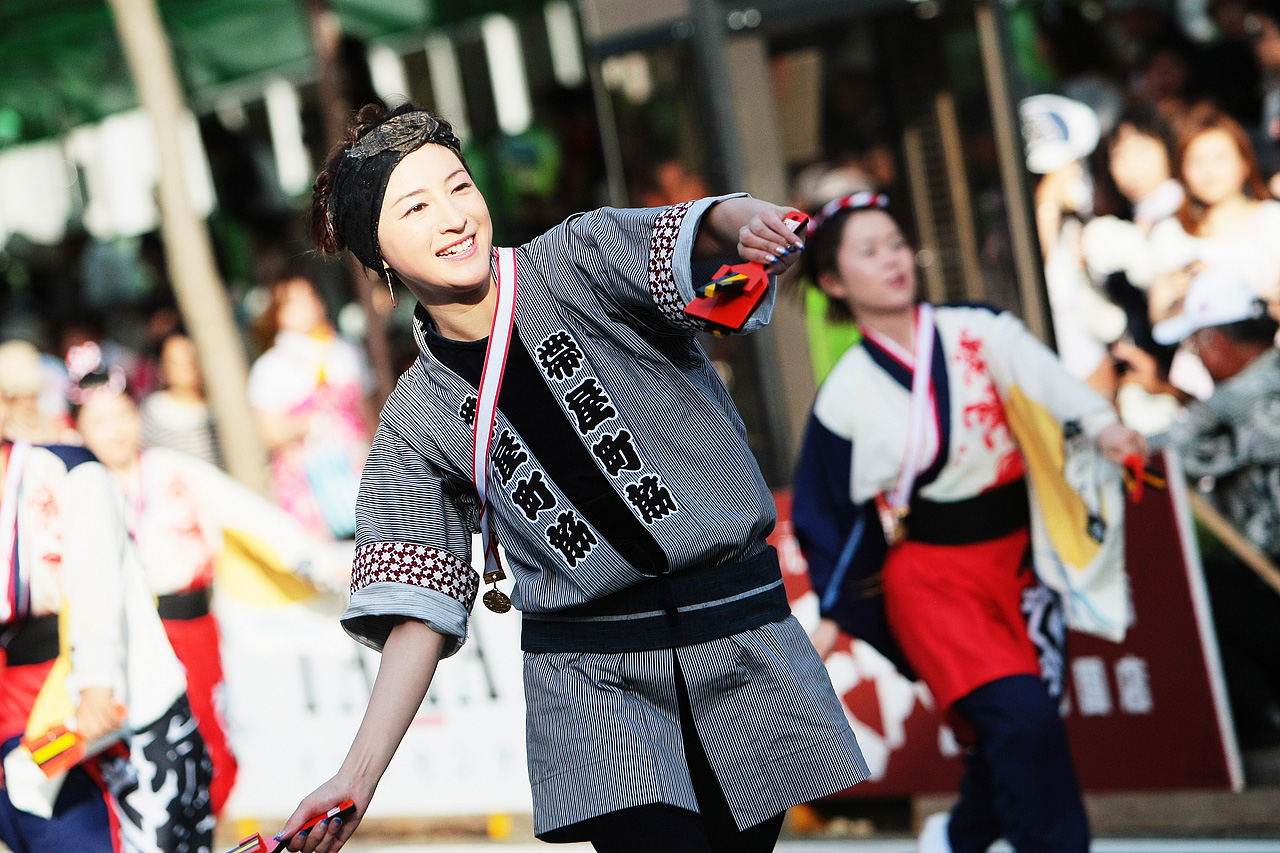 Kochi Yosakoi Festival in Kochi, Japan. Japanese actress Ryoko Hirosue perfoming dance at festival.